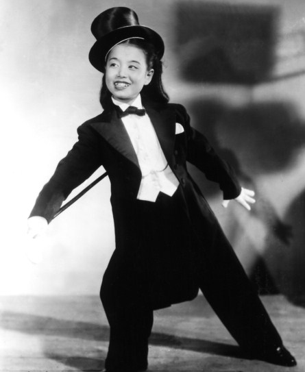 Hibari Misora in 1949 Japanese movie Kanashiki kuchibue (Sad Whisling).